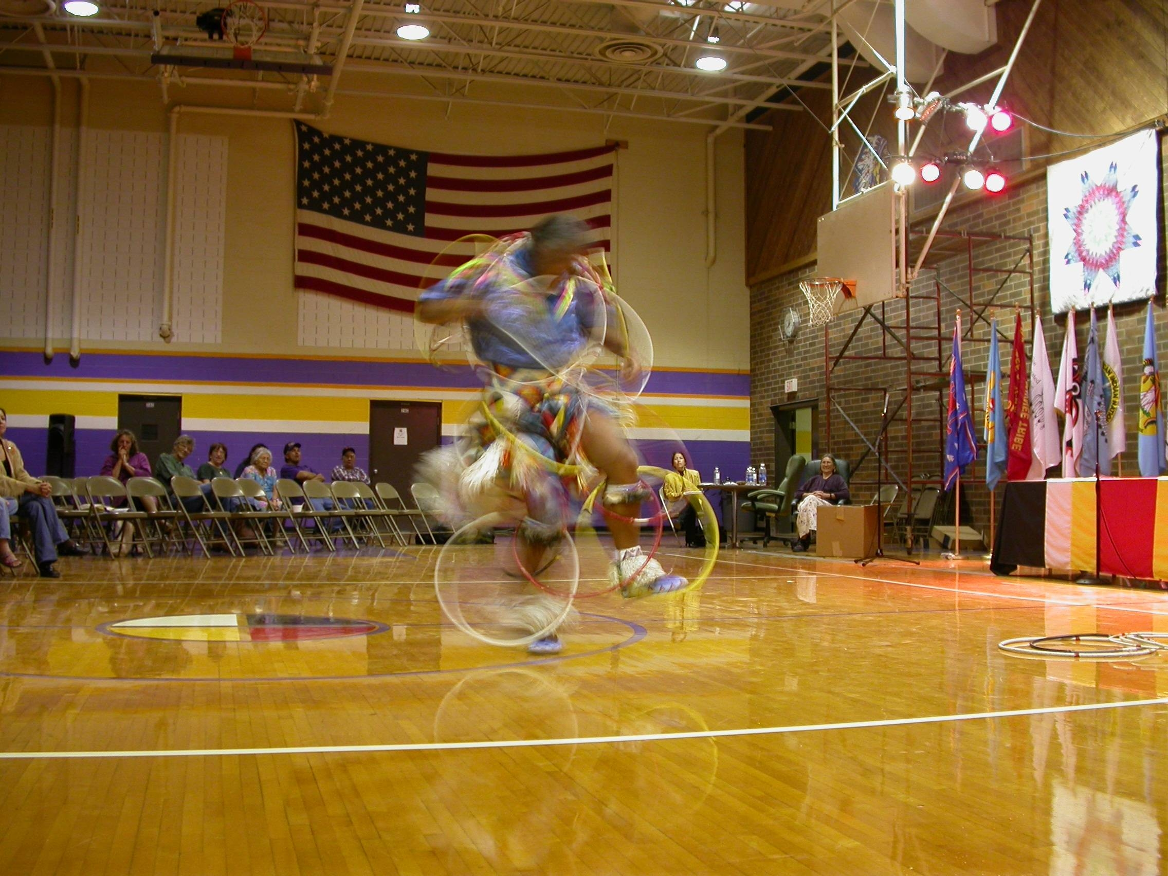 Hoop dance at Lower Brule Reservation in South Dakota